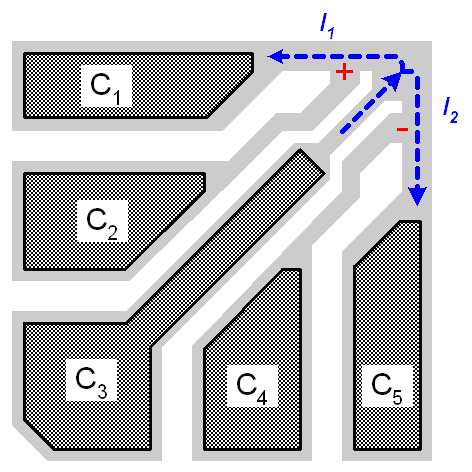 Splitted Hall structure with a corner active region (C3 is the central current electrode, C1, C5 are lateral current electrodes, C2, C4 are potential electrodes)